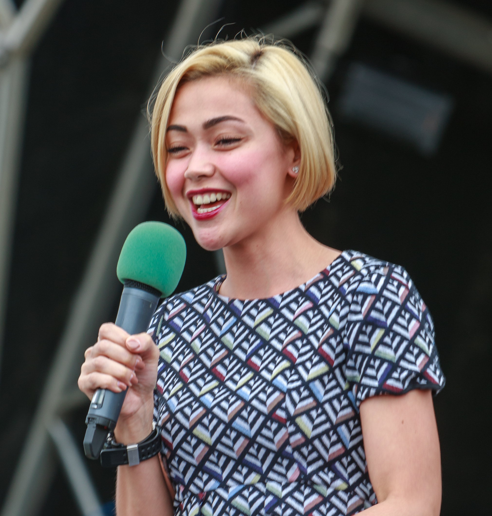 Jodi Santamaria at Barrio Fiesta sa London 2016 - Saturday